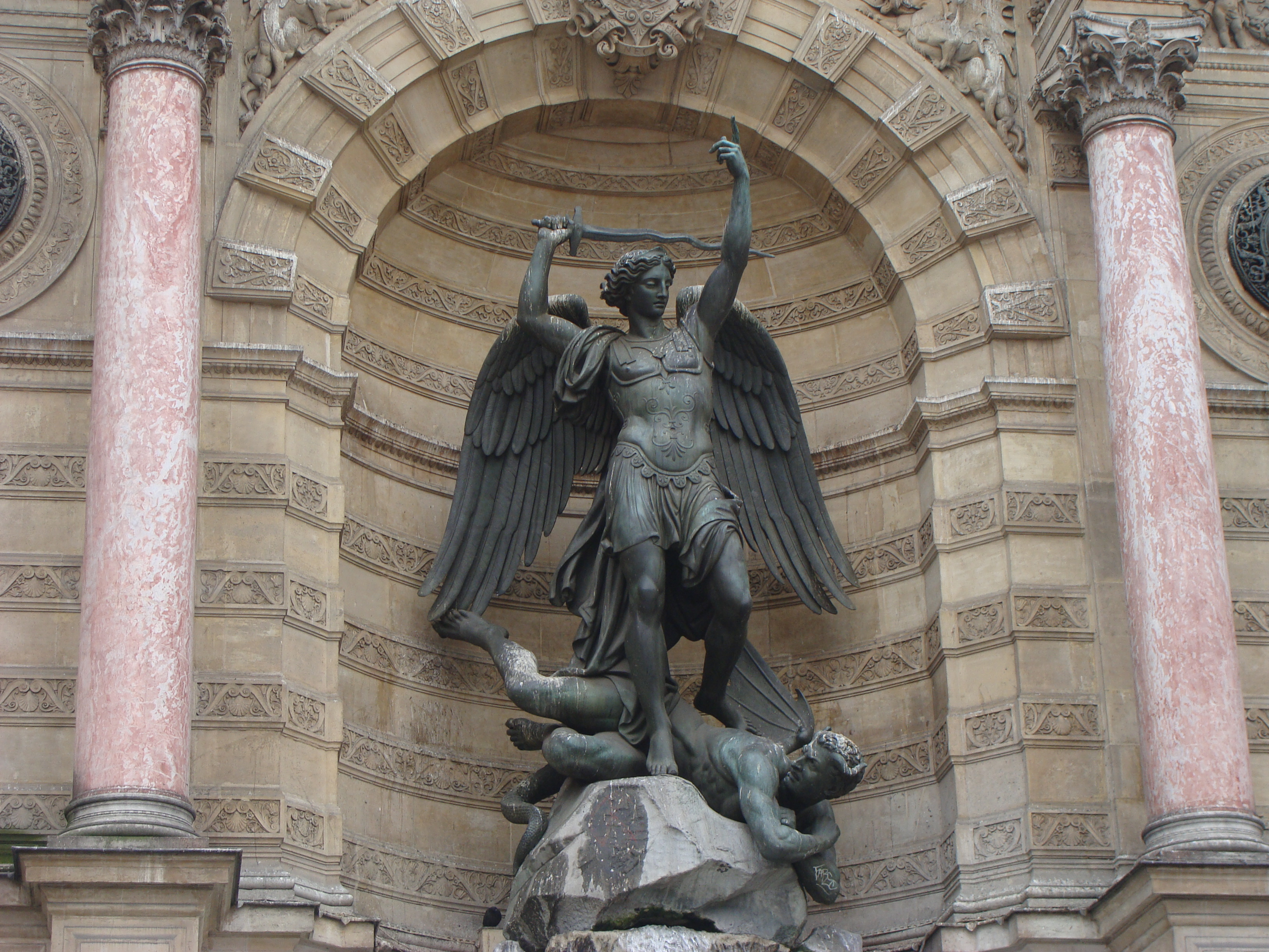 Saint-Michel, Duret. Paris